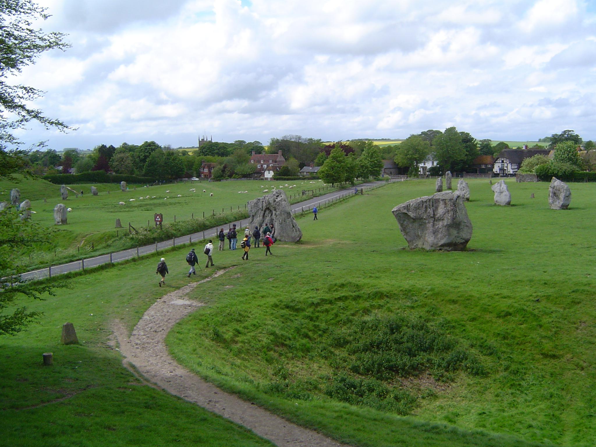 Avebury: the ditch in the right foreground circles the village of Avebury, which can be seen in the middle distance. Unlike Stonehenge, there is full and free access to the stones.